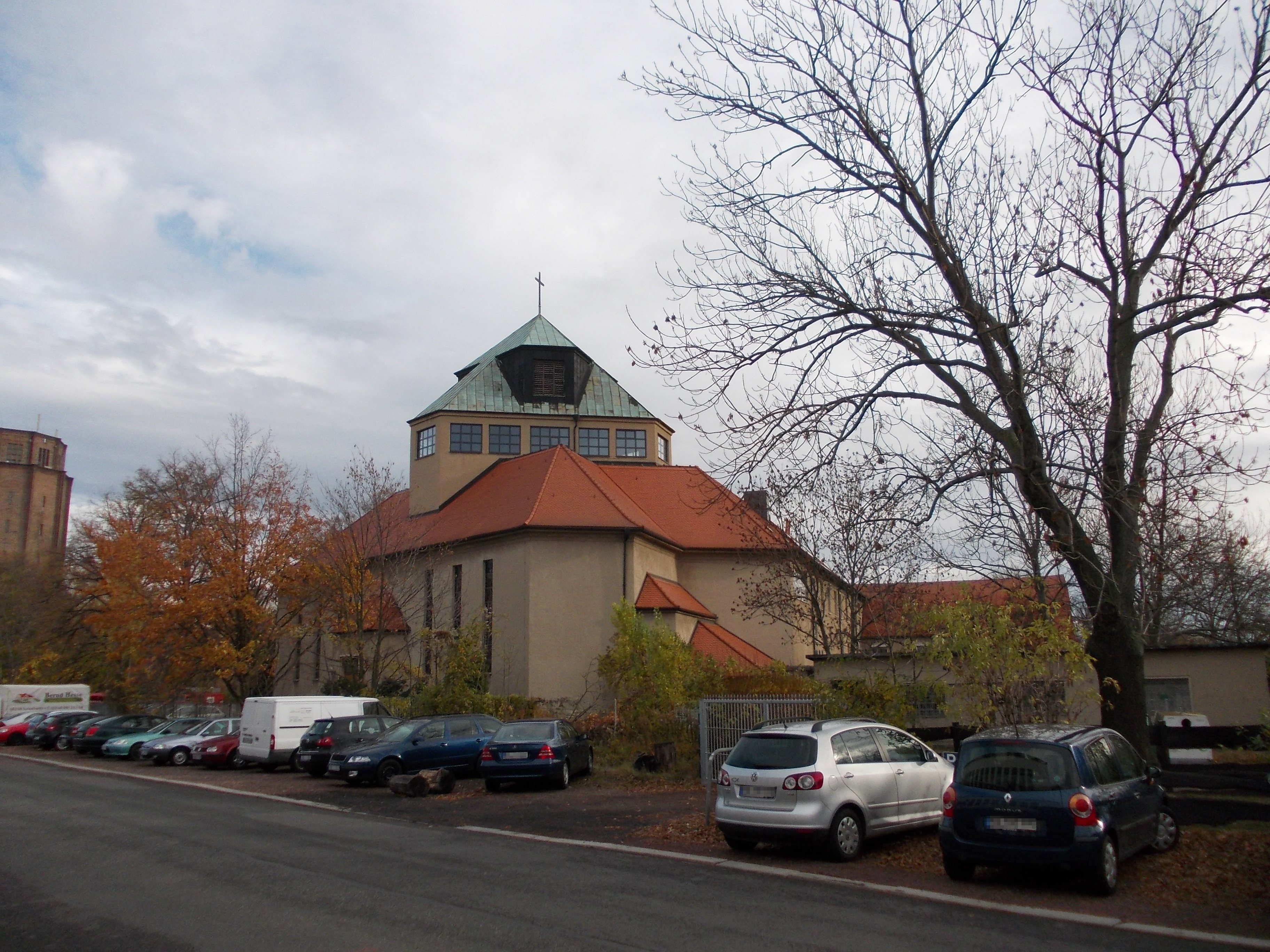 Franciscan monastery with Trinity Church in Halle/Saale (Saxony-Anhalt)